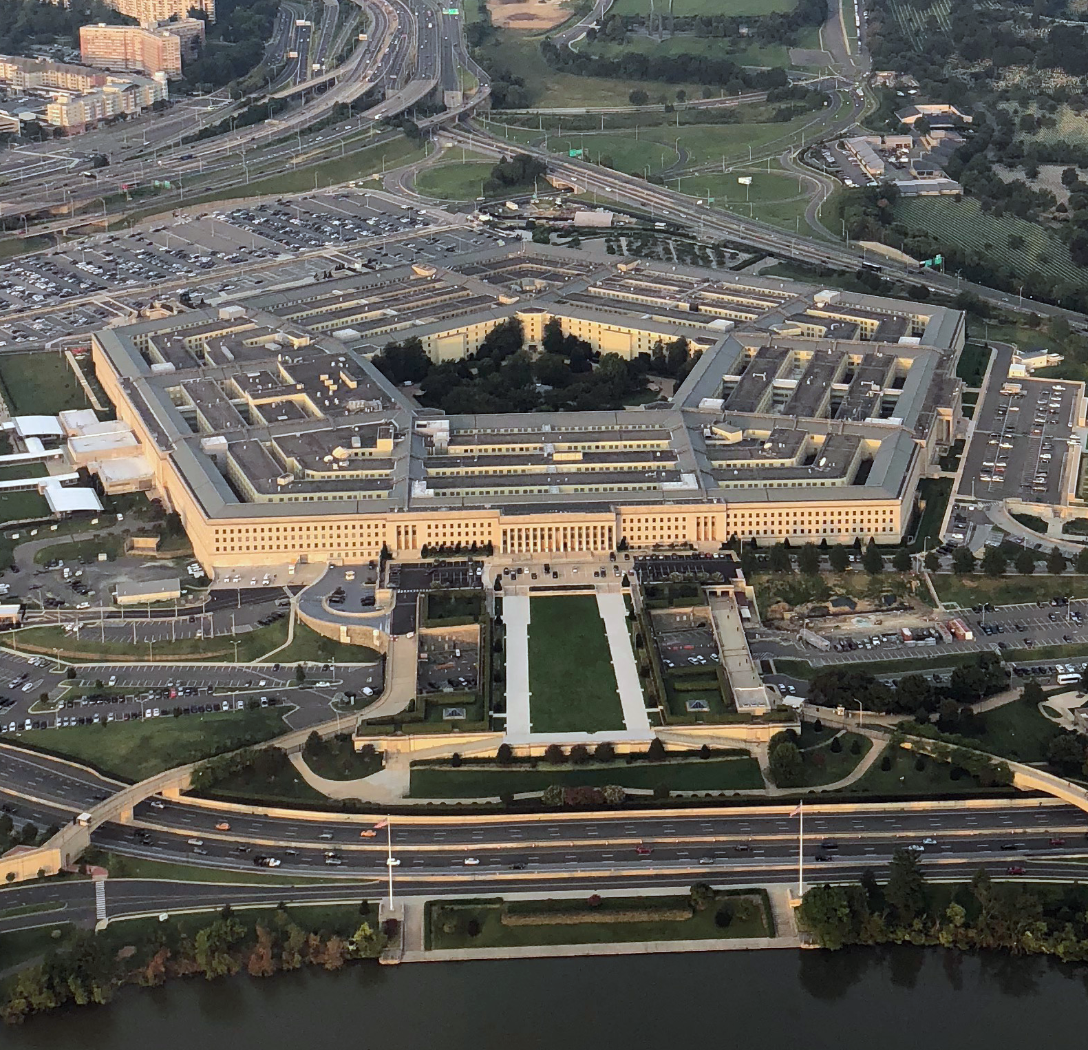 The Pentagon, headquarters of the US Department of Defense, taken September 2018